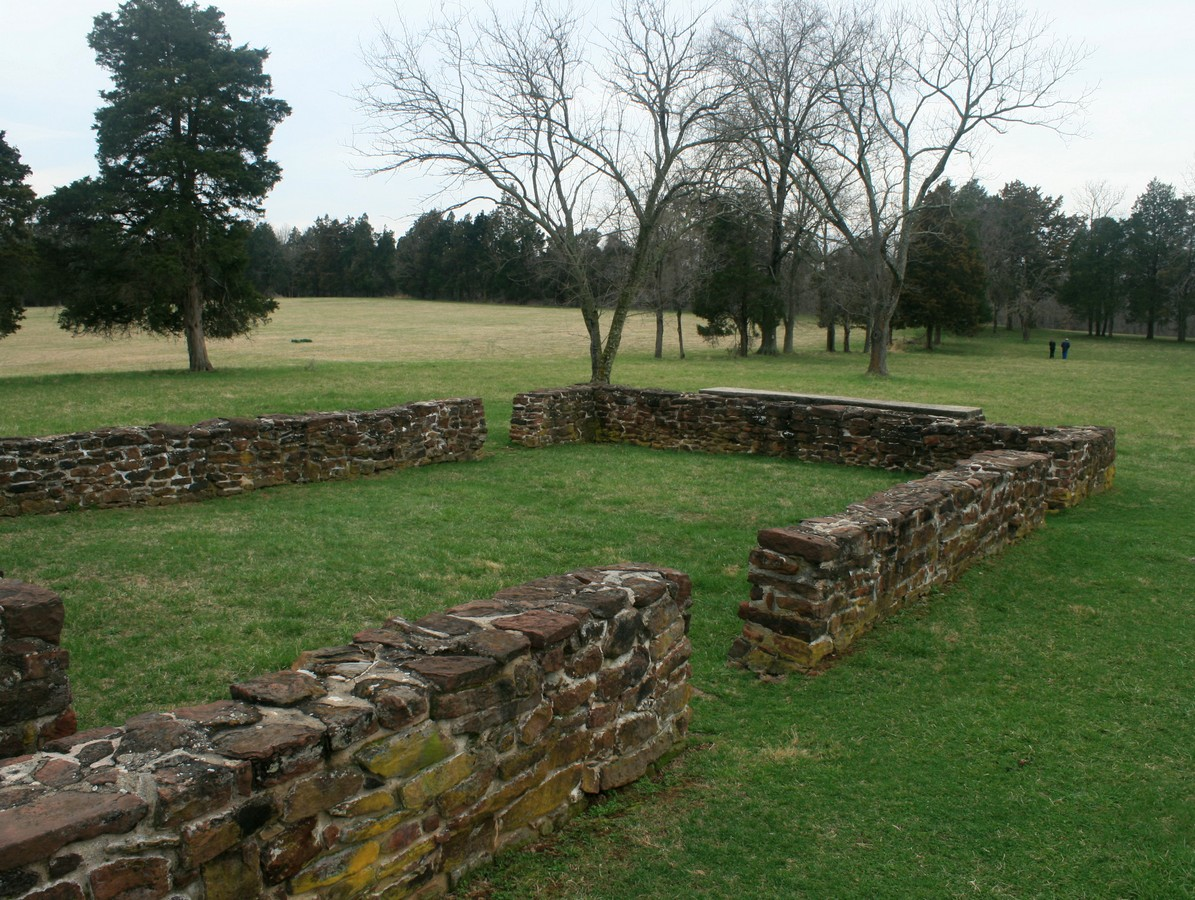 Manassas bettlefield, remains of Hazel Plain, house of Behjamin Chinn family.